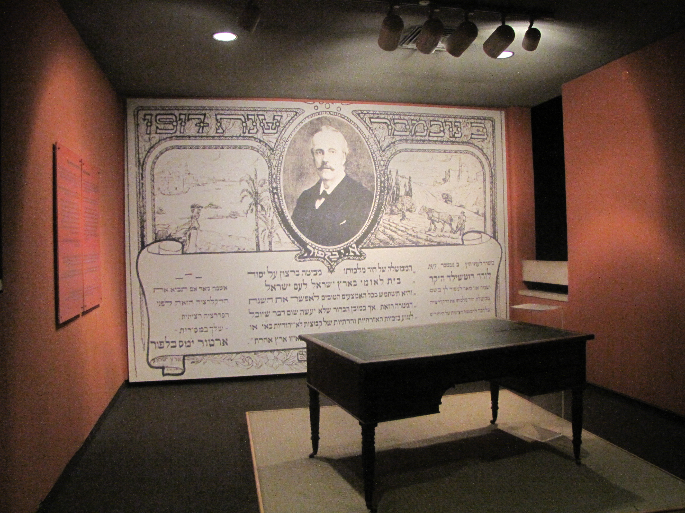 Lord Balfour's writing desk. Museum of the Jewish People, Tel Aviv.